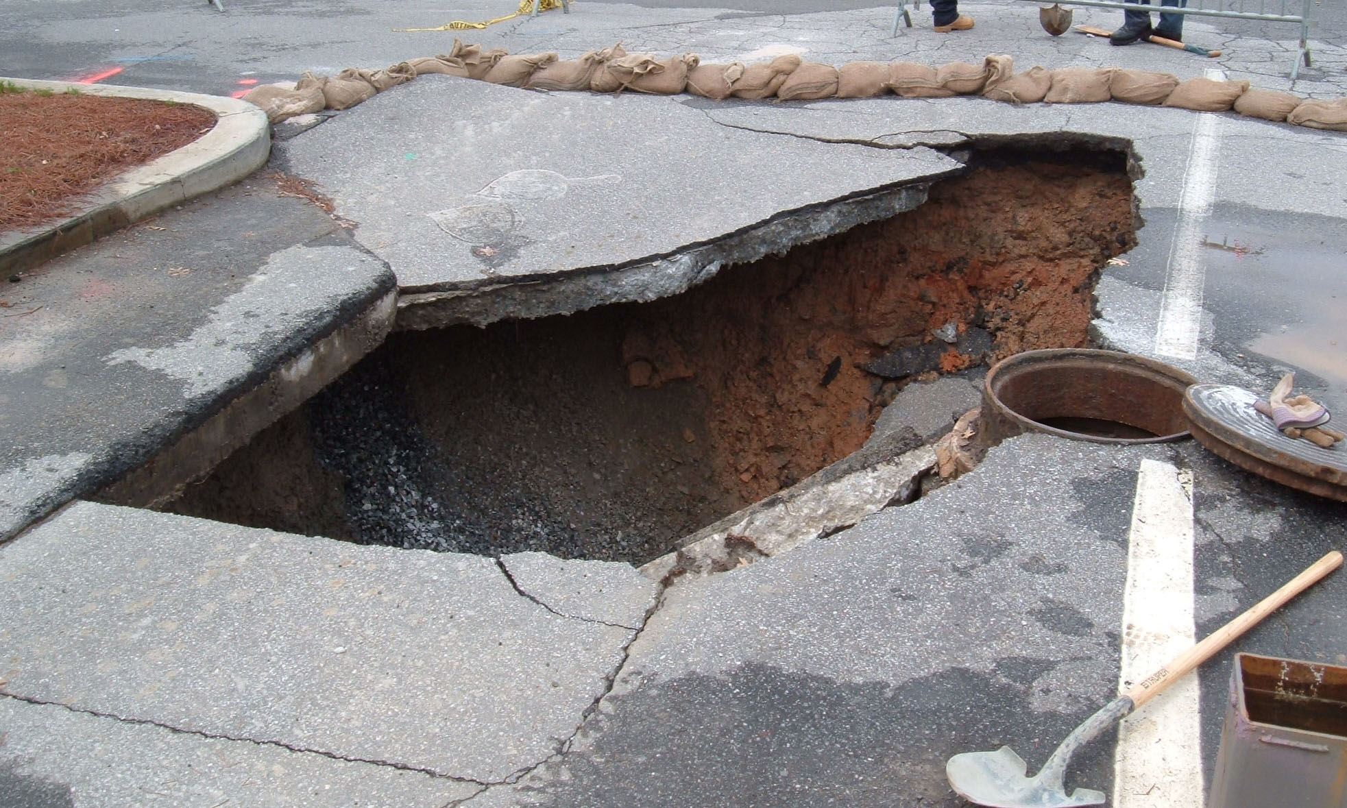 This is a sinkhole in a parking lot at Georgia Tech in Atlanta, GA, USA. A contractor I spoke with said the hole was 32 feet deep. It was formed as rainwater leaked through the pavement and into a break in the sewer line below.